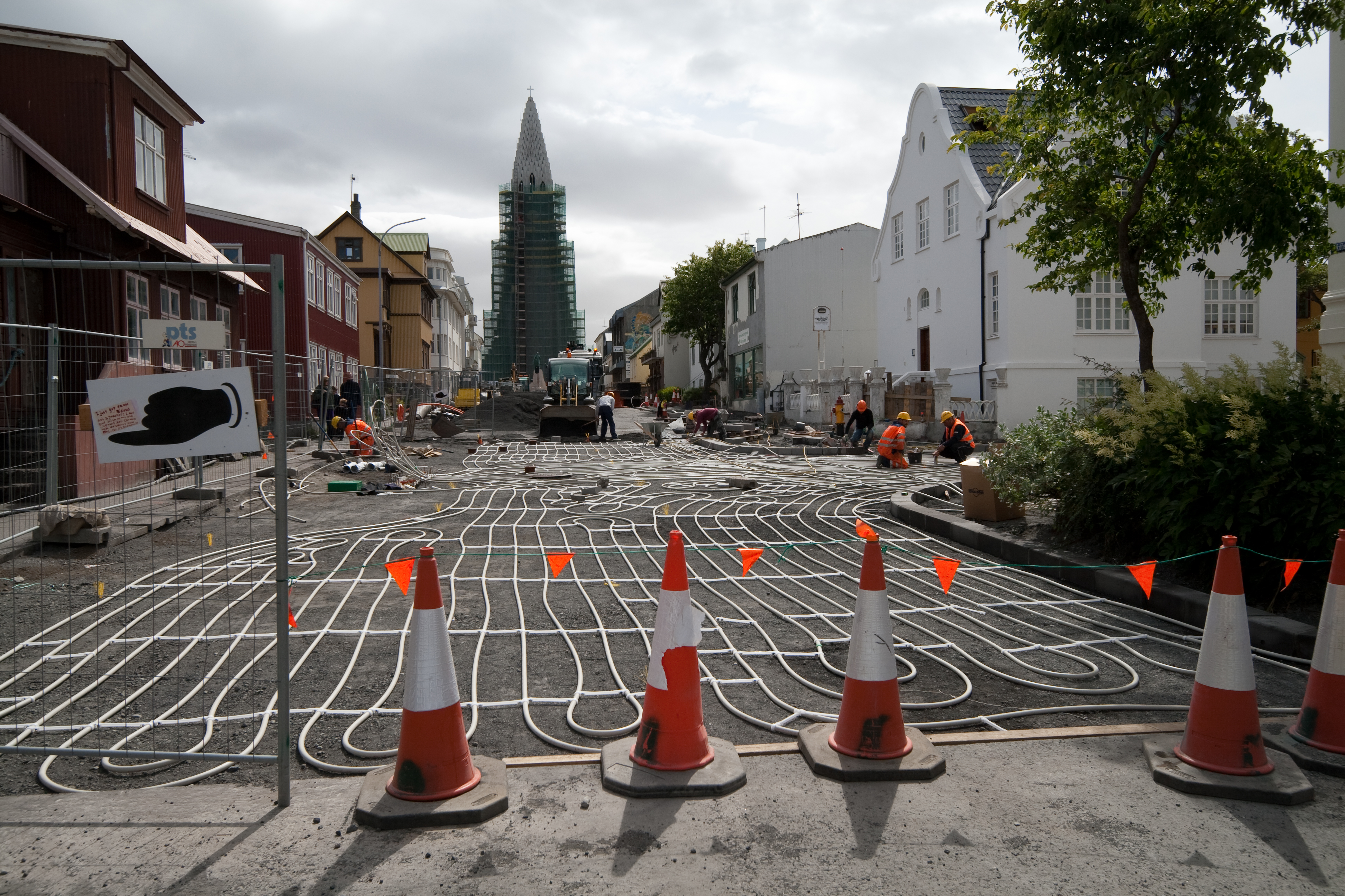 Installation of a road heating in Reykjavik.